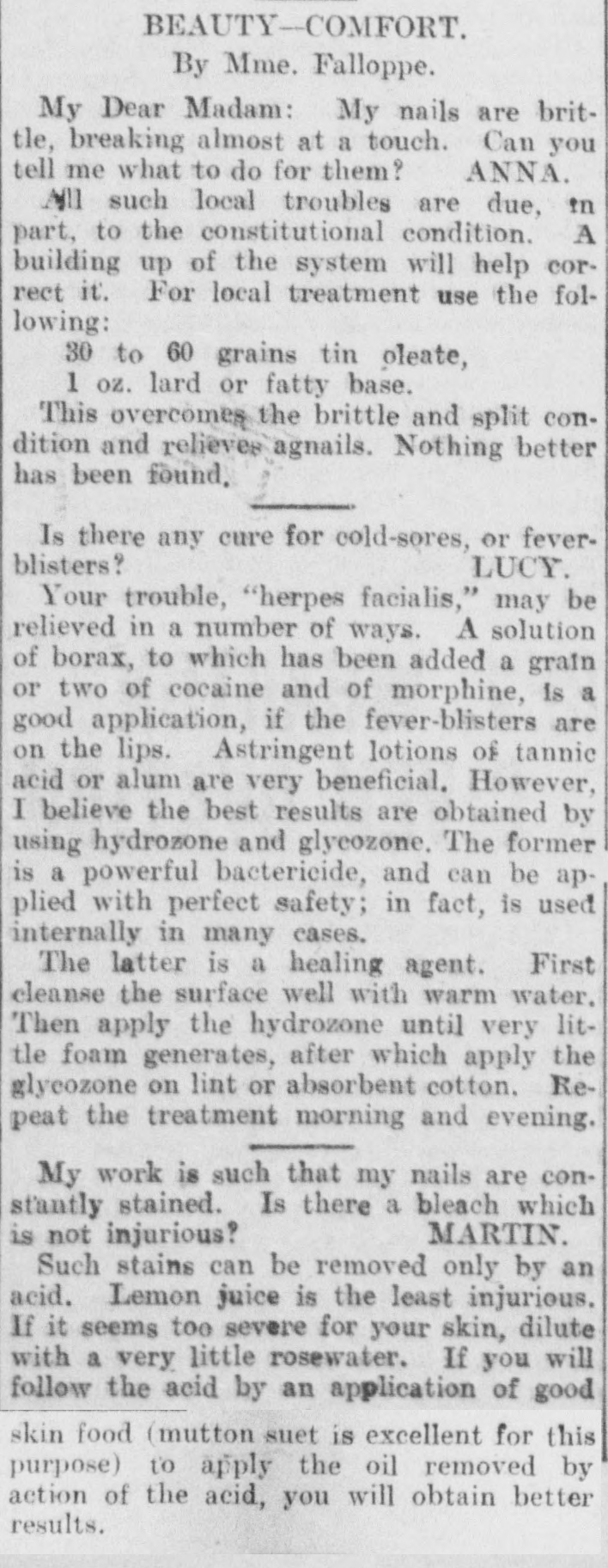 in 1904, this advice column by "Madame Falloppe" appeared in the Tacoma Times; notably, Madame Falloppe's recommendation for cold sores was "a solution of borax, to which has been added a grain or two of cocaine and of morphine." Text: BEAUTY-COMFORT By Mme. Falloppe. My Dear Madam: My nails are brittle, breaking almost at a touch. Can you tell me what to do for them? ANNA. All such local troubles are due, in part, to the constitutional condition. A building up of the system will help correct it. For local treatment use the following: 30 to 60 grains tin oleate, 1 oz. lard or fatty base. This overcomes the brittle and split condition and relieves agnails. Nothing better has been found. Is there any cure for cold-sores, or fever-blisters? LUCY. Your trouble, "herpes facialis", may be relieved in a number of ways. A solution of borax, to which has been added a grain or two of cocaine and of morphine, is a good application, if the fever blisters are on the lips. Astringent lotions of tannic acid or alum are very beneficial. However, I believe the best reults are obtained by using hydrozone and glycozone. The former is a powerful bactericide, and can be applied with perfect safety; in fact, is used internally in many cases. The latter is a healing agent. First cleanse the surface well with warm water. Then apply the hydrozone until very little foam generates, after which apply the glycozone on lint or absorbent cotton. Repeat the treatment morning and evening. My work is such that my nails are constantly stained. Is there a bleach which is not injurious? MARTIN. Such stains can be removed only by an acid. Lemon juice is the least injurious. If it seems too severe for your skin, dilute with a very little rosewater. If you will follow the acid by an application of good skin food (mutton suet is excellent for this purpose) to apply the oil removed by action of the acid, you will obtain better results.